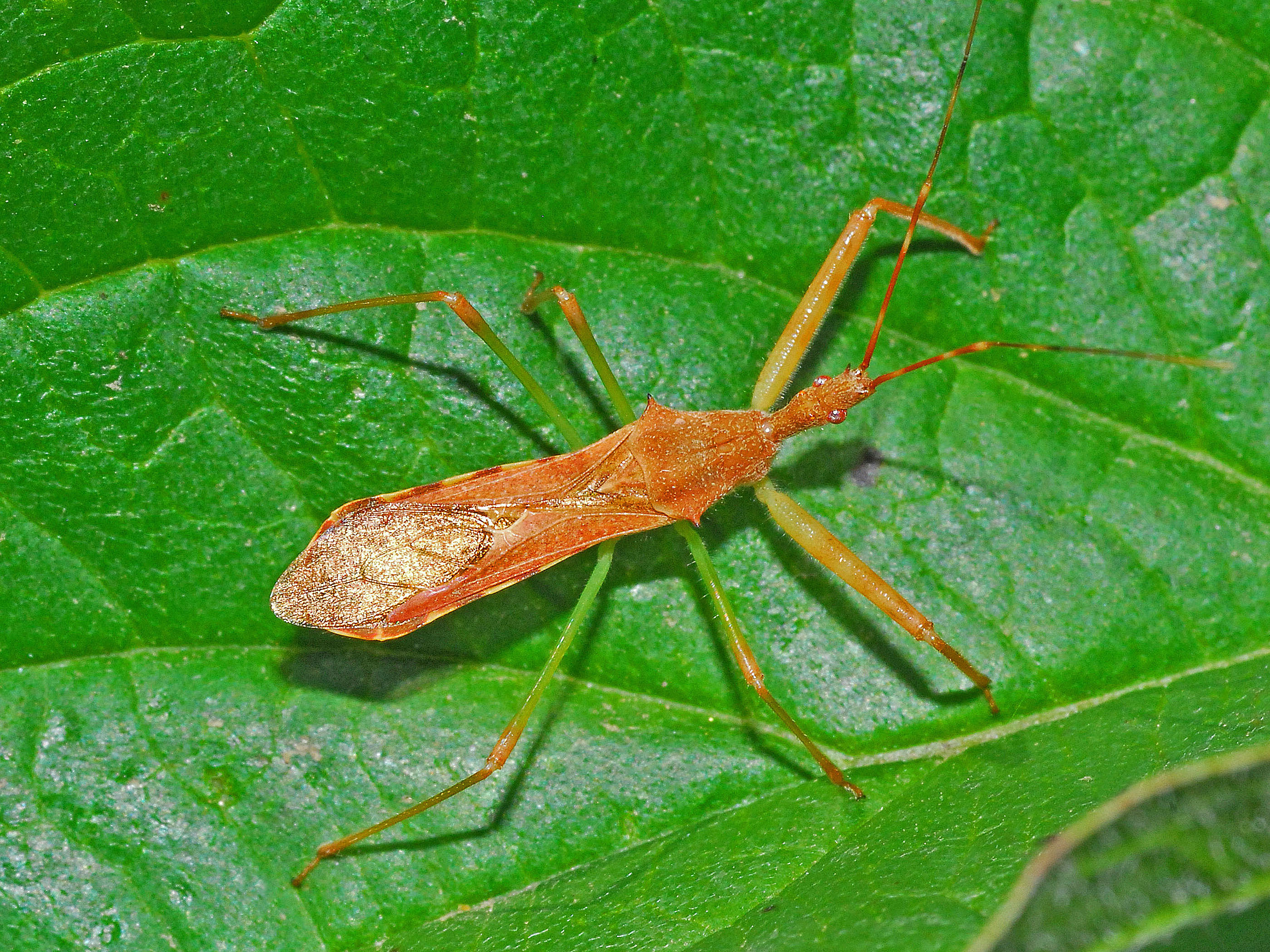 Nagusta goedelii. Alessandria, Italy